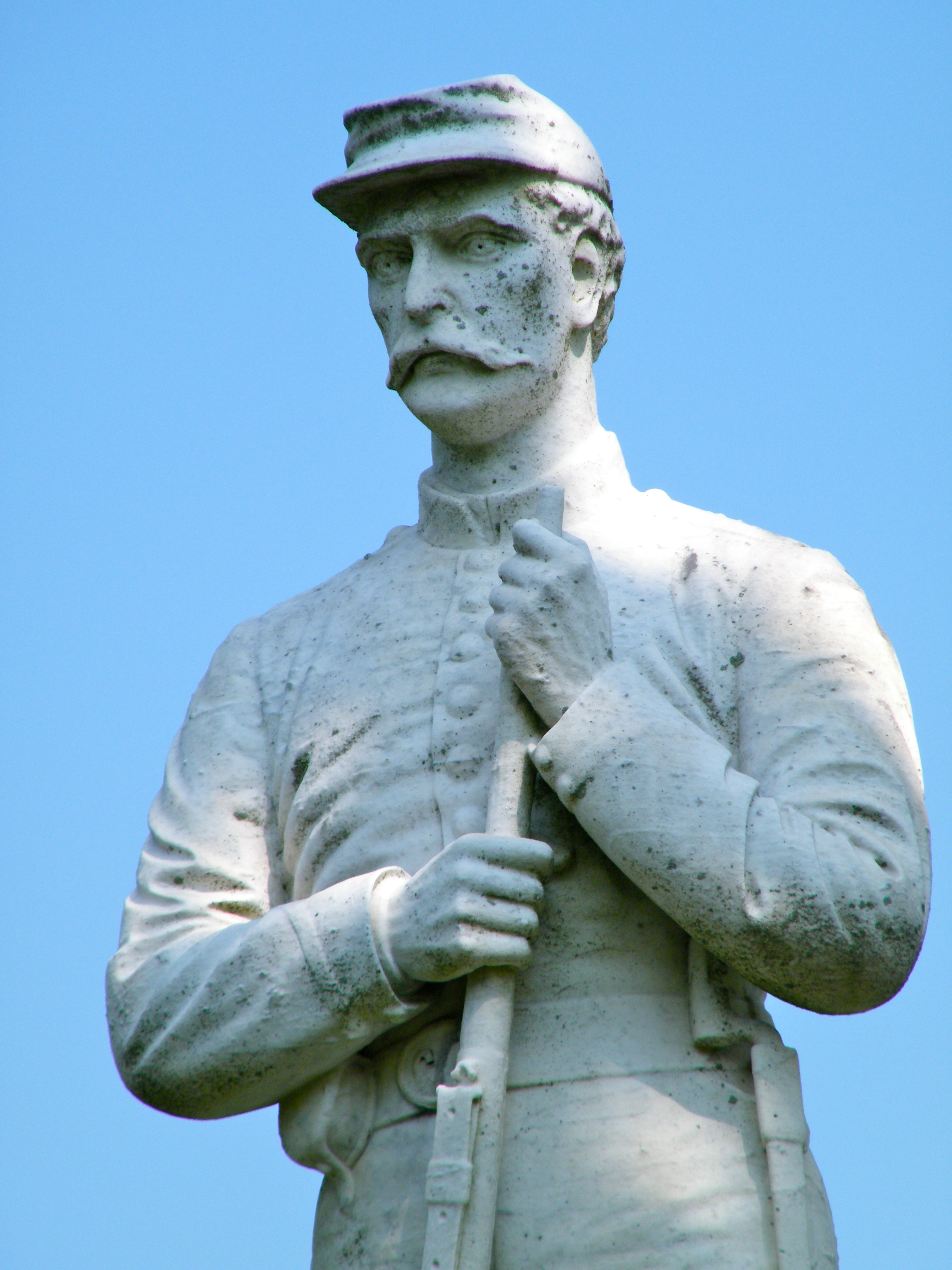 Memorial to Maryland Soldiers by John O'Brian, 1880, stone. Mount Hebron Cemetery, Winchester, Virginia. (Information from